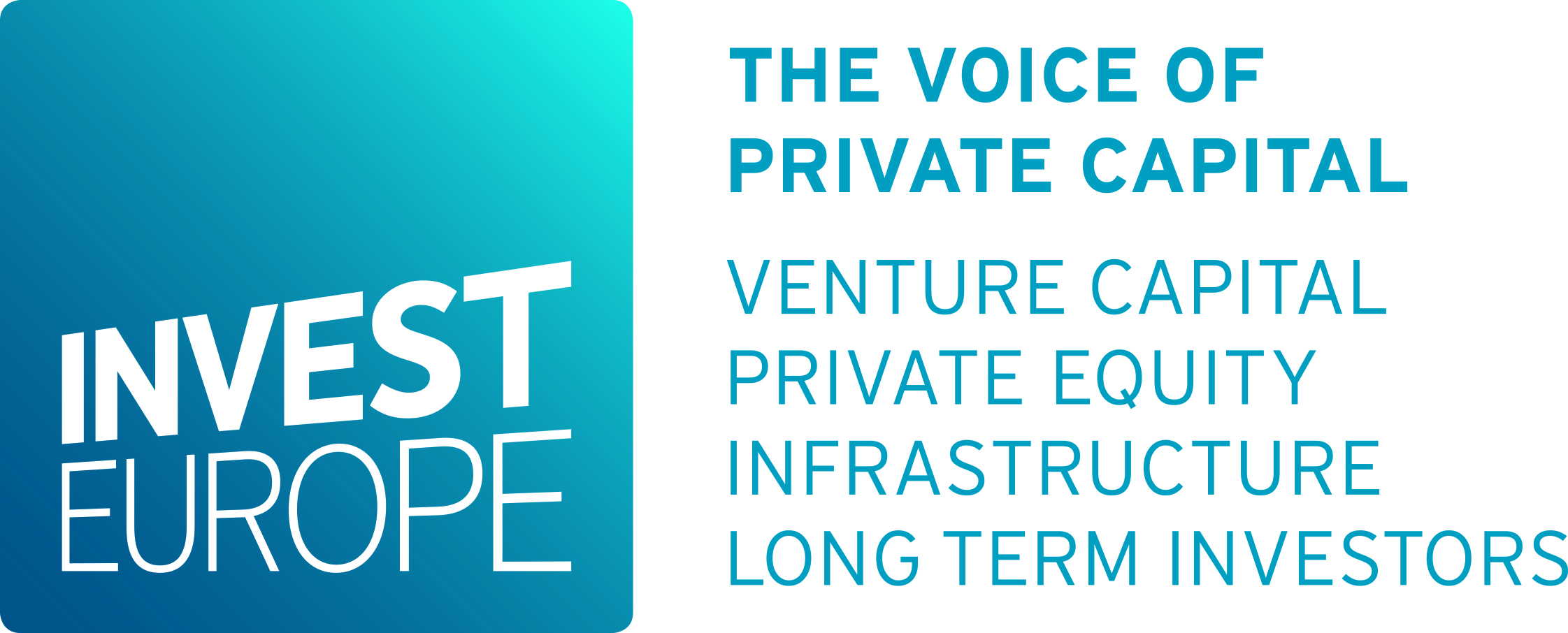 Invest Europe logo